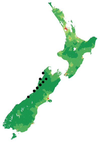 This is a map of Coast FM frequencies and New Zealand population density.